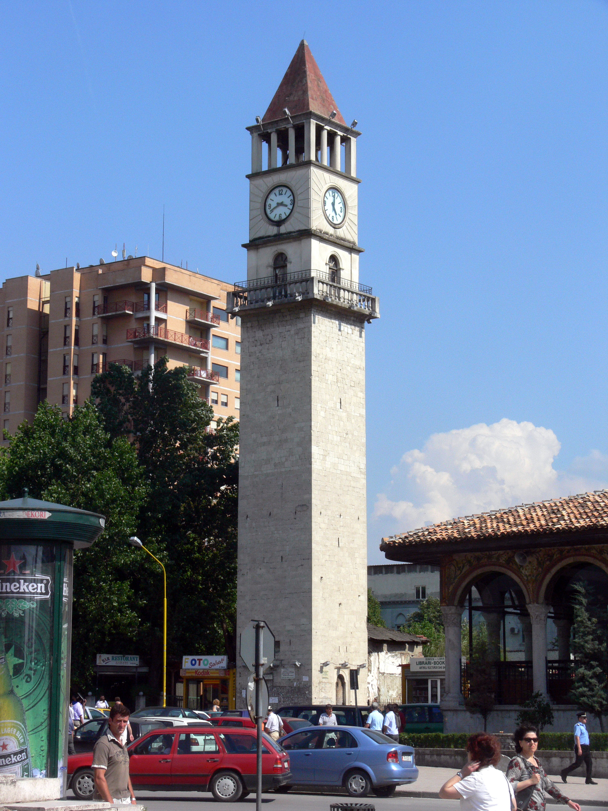 Tirana. Clock-Tower